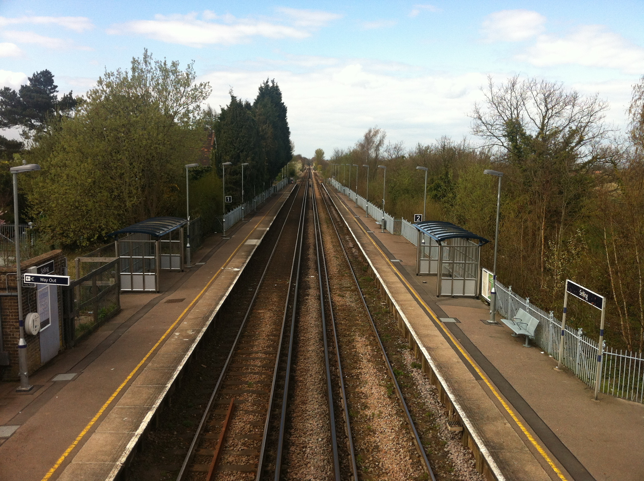 Selling railway station, Kent. Heading towards Faversham.